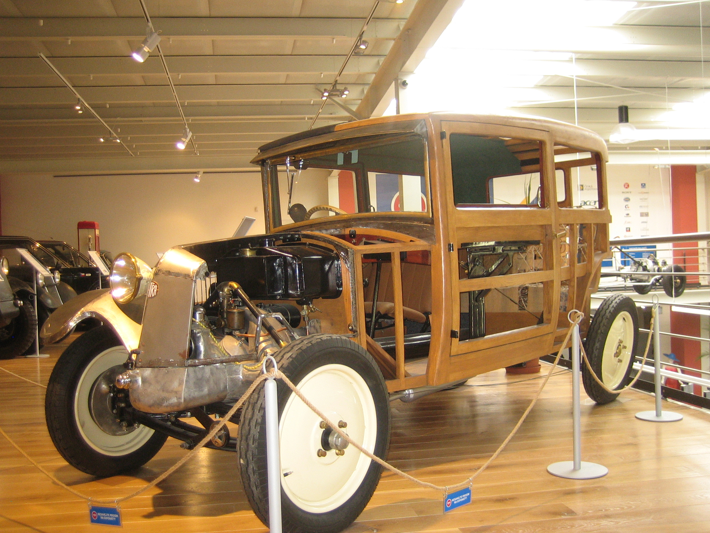 Tatra 12 carrossery